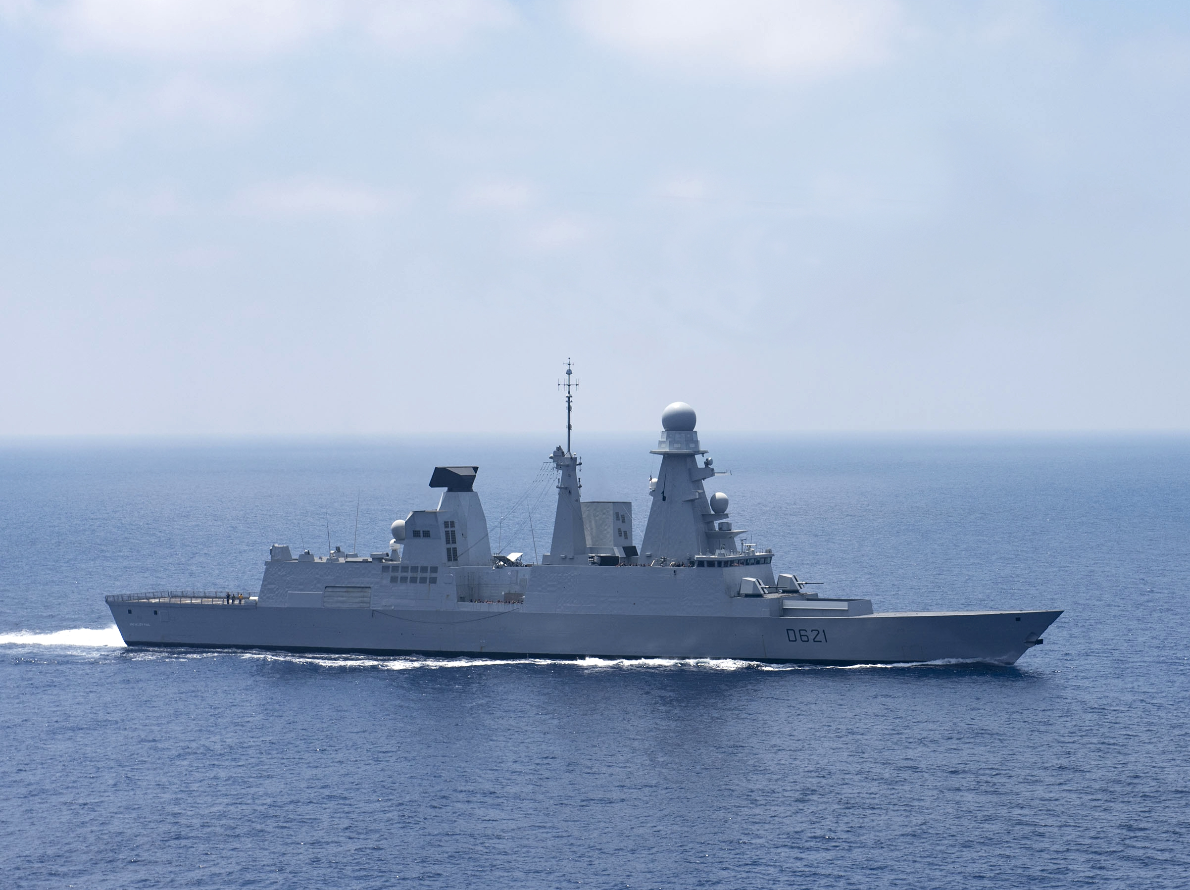 The French Marine Nationale guided missile destroyer Chevalier Paul (D621) underway in the Mediterranean Sea on 15 July 2017. Note: the Horizon-class ships are officially called "frigates", although they all received NATO destroyer pennant numbers.